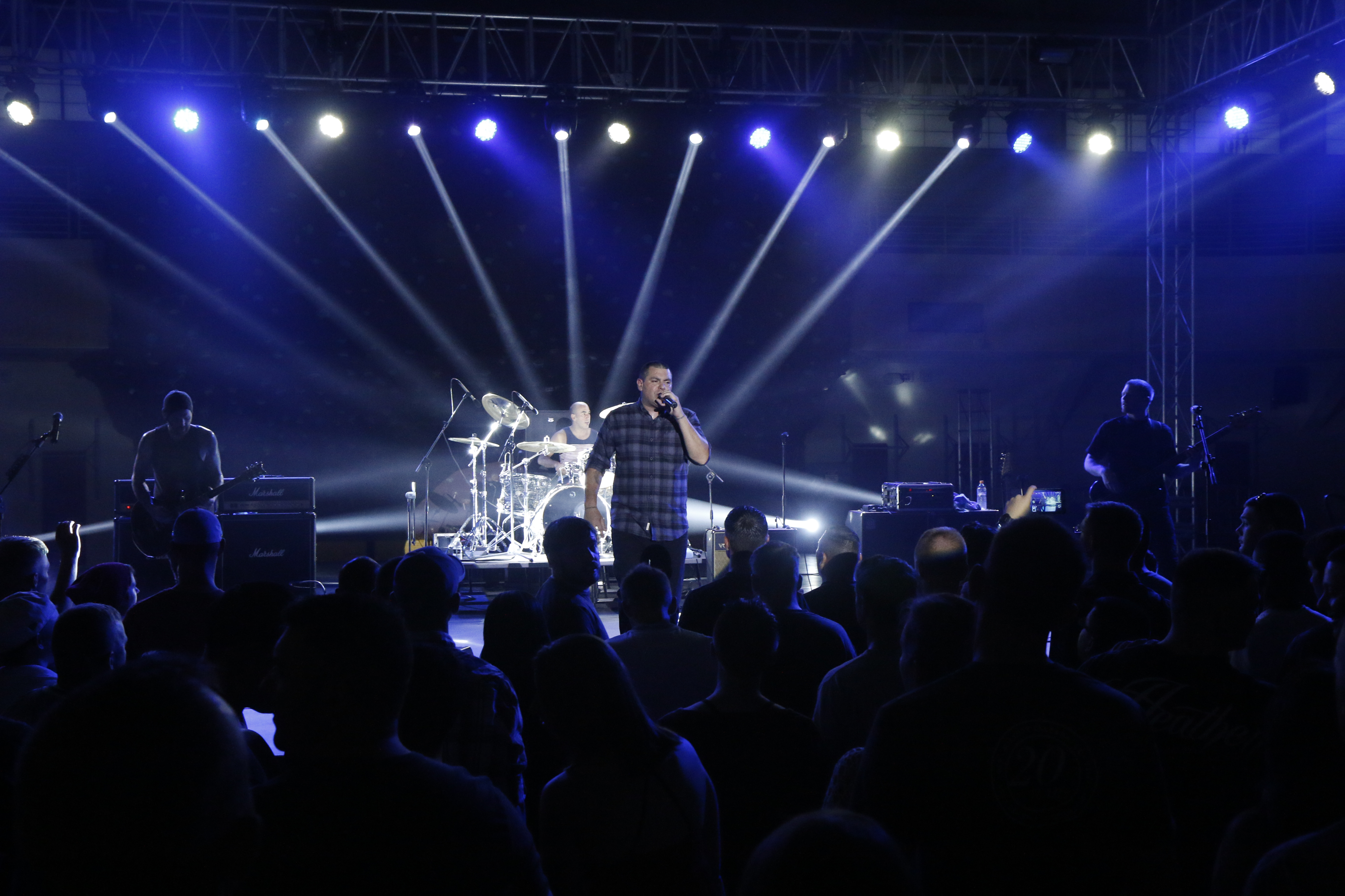 Click here to learn more about Camp Humphreys - U.S. Army photos by Terese Toennies